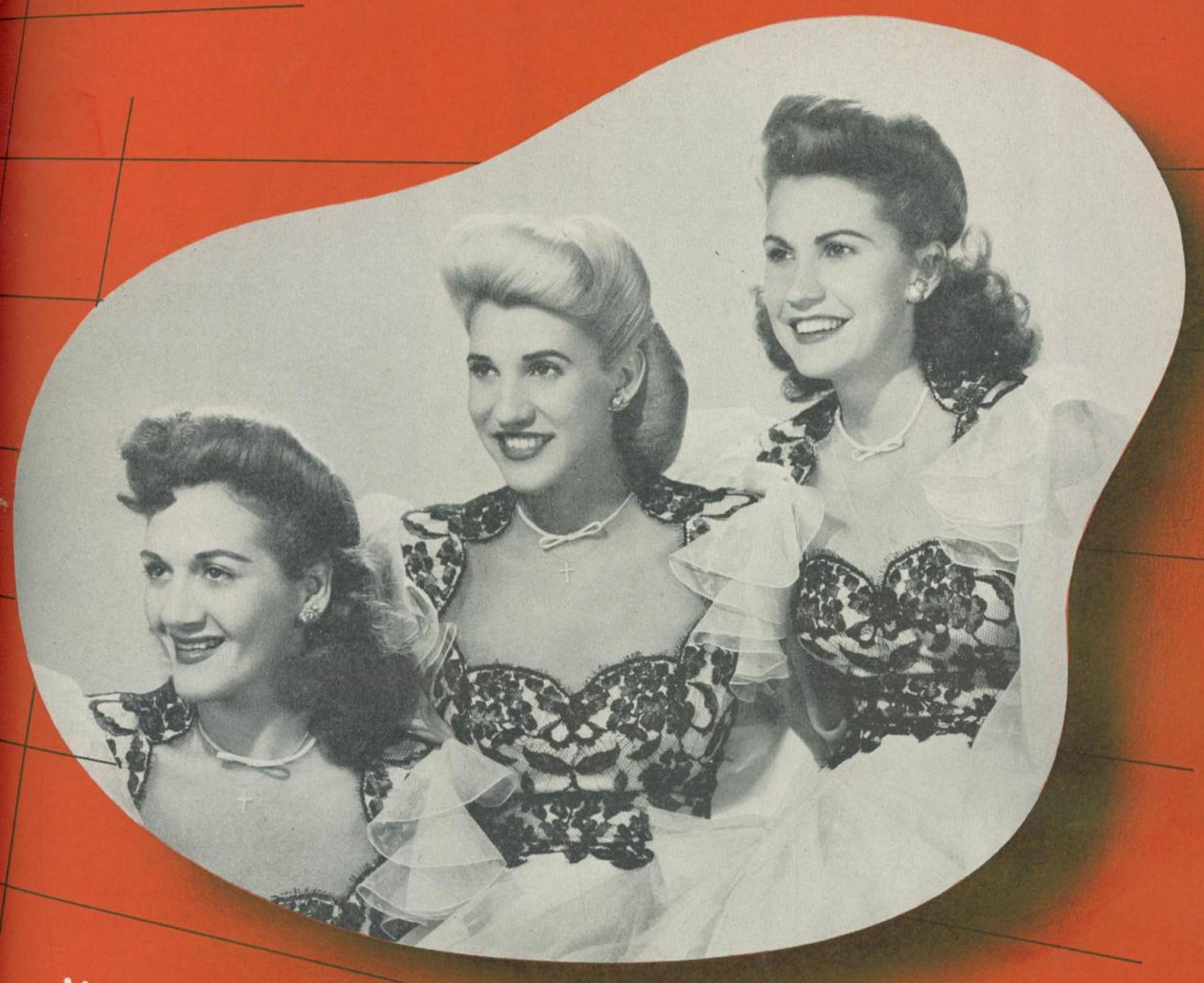 The Andrews Sisters